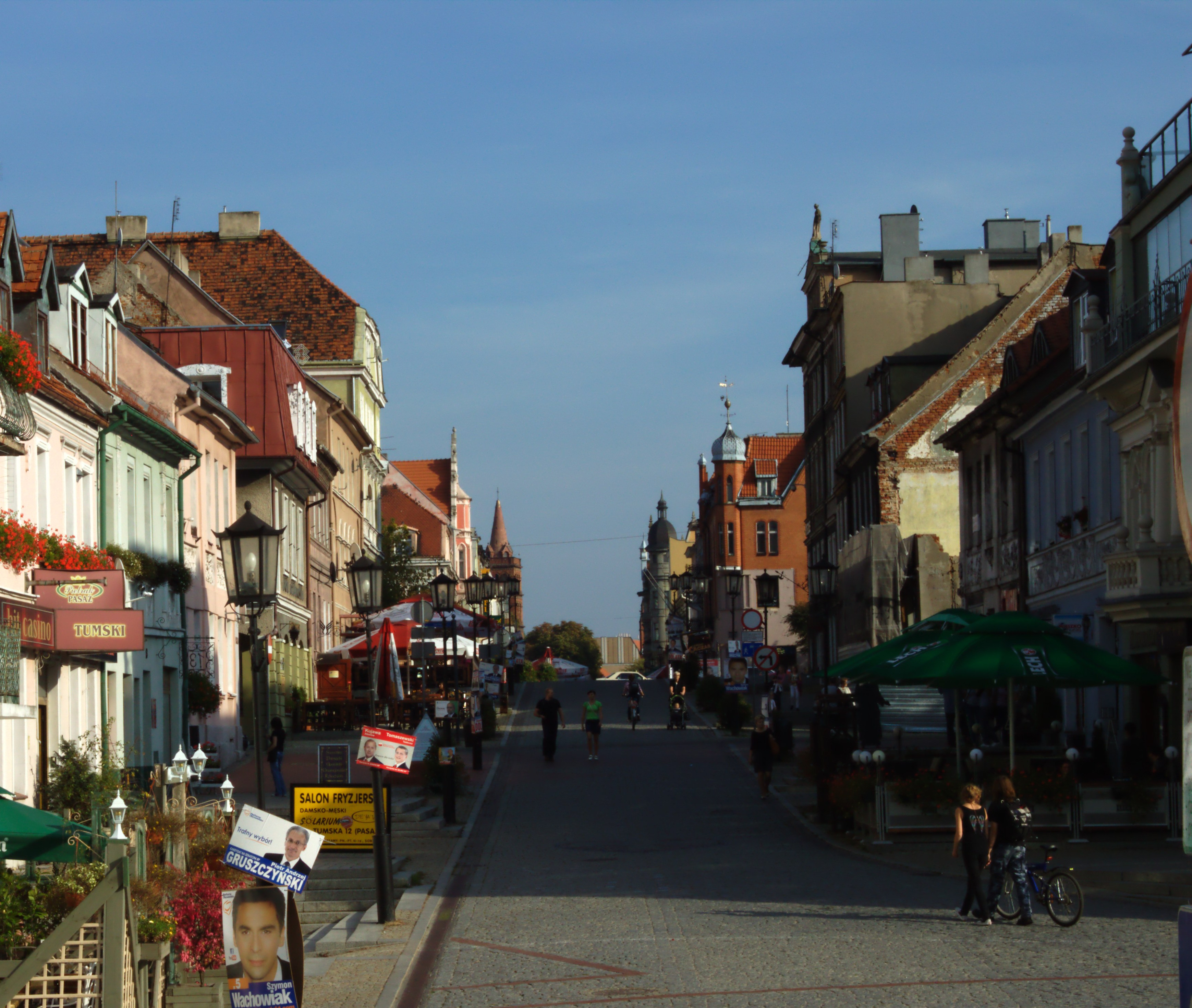 Tumska street seen from the cathedral, Gniezno, Poland